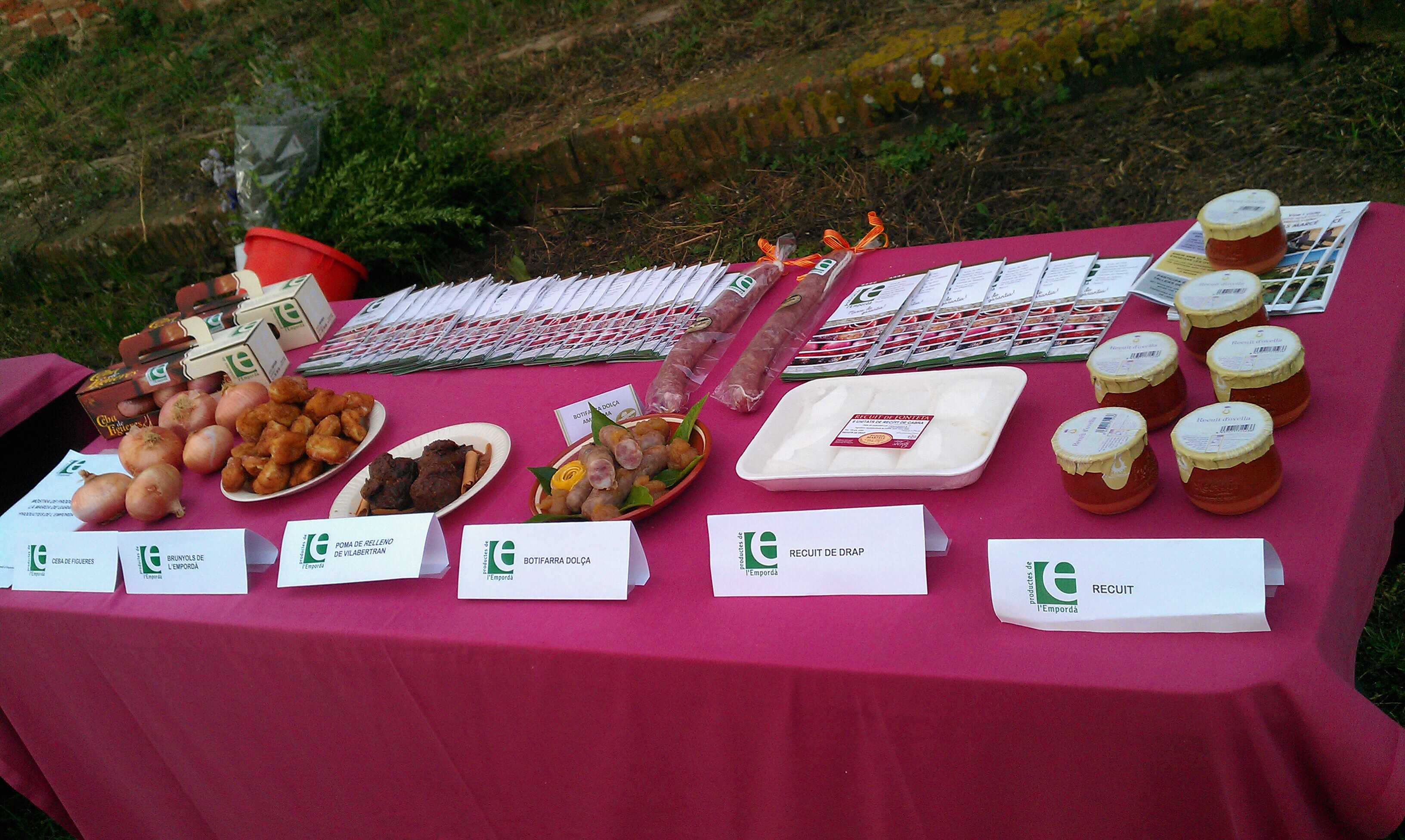 Products of the Productes de l'Empordà brand